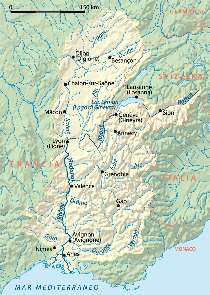 Drainage basin of Rhône River, Italian version